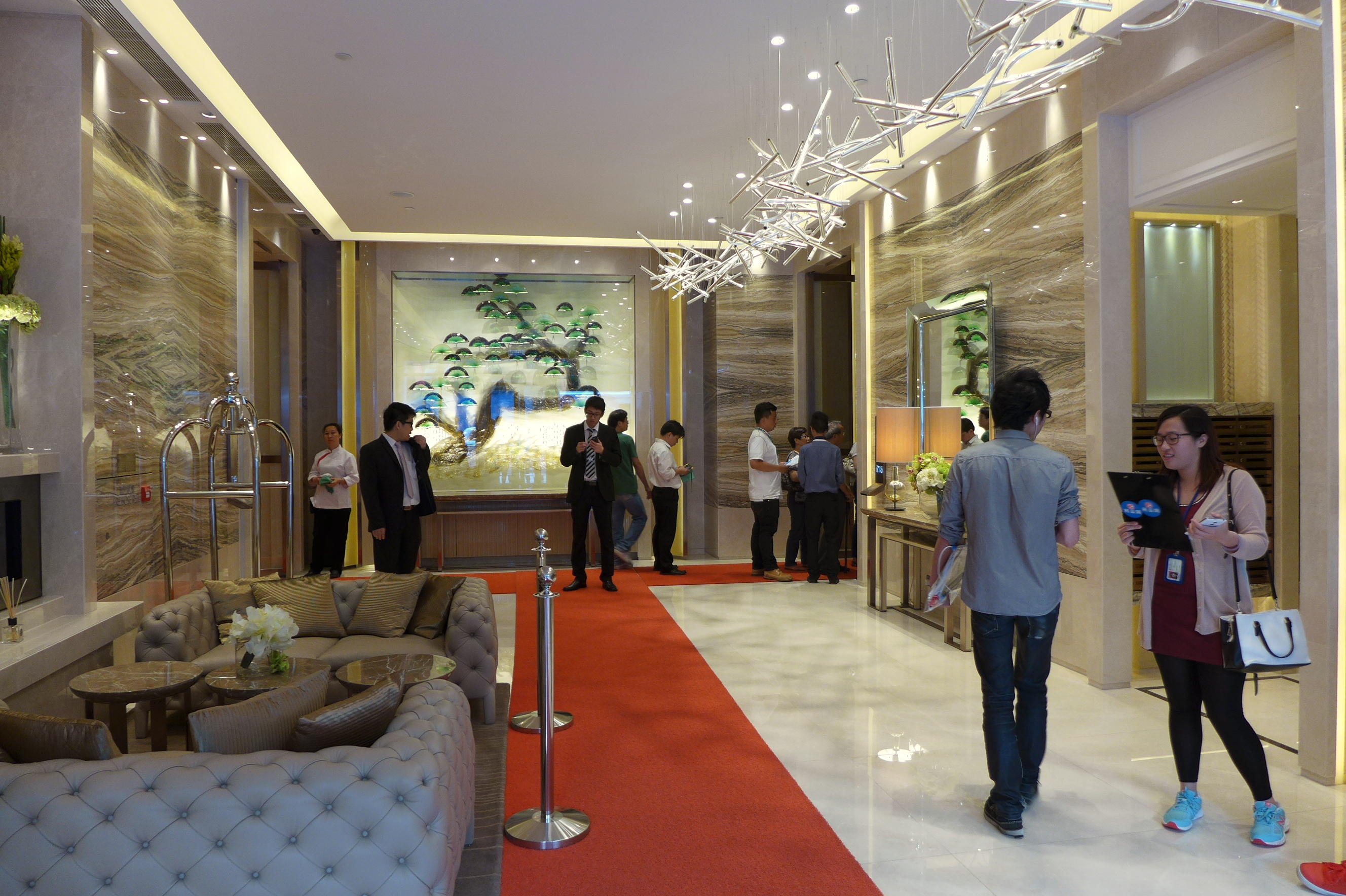 MacPherson Place